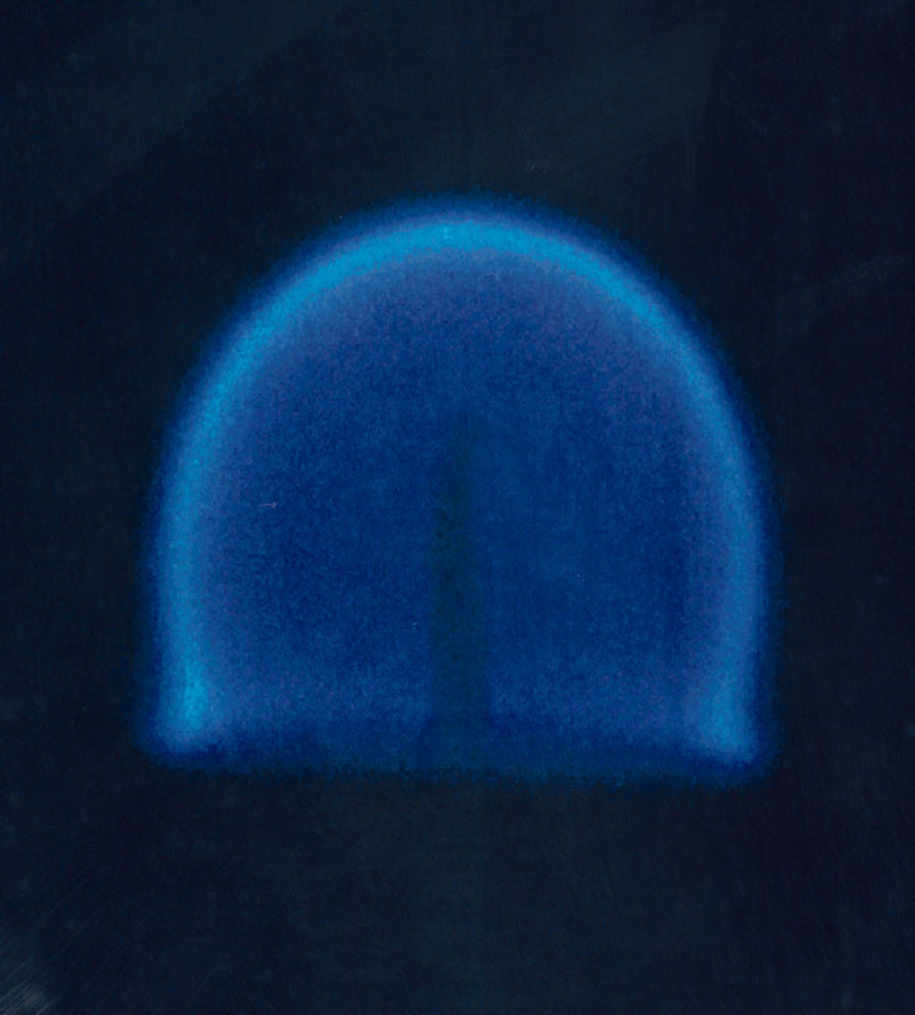 This photograph from CFM is a candle flame burning over time in microgravity, it shows that the candle flame continues to grow and exhibits less soot.